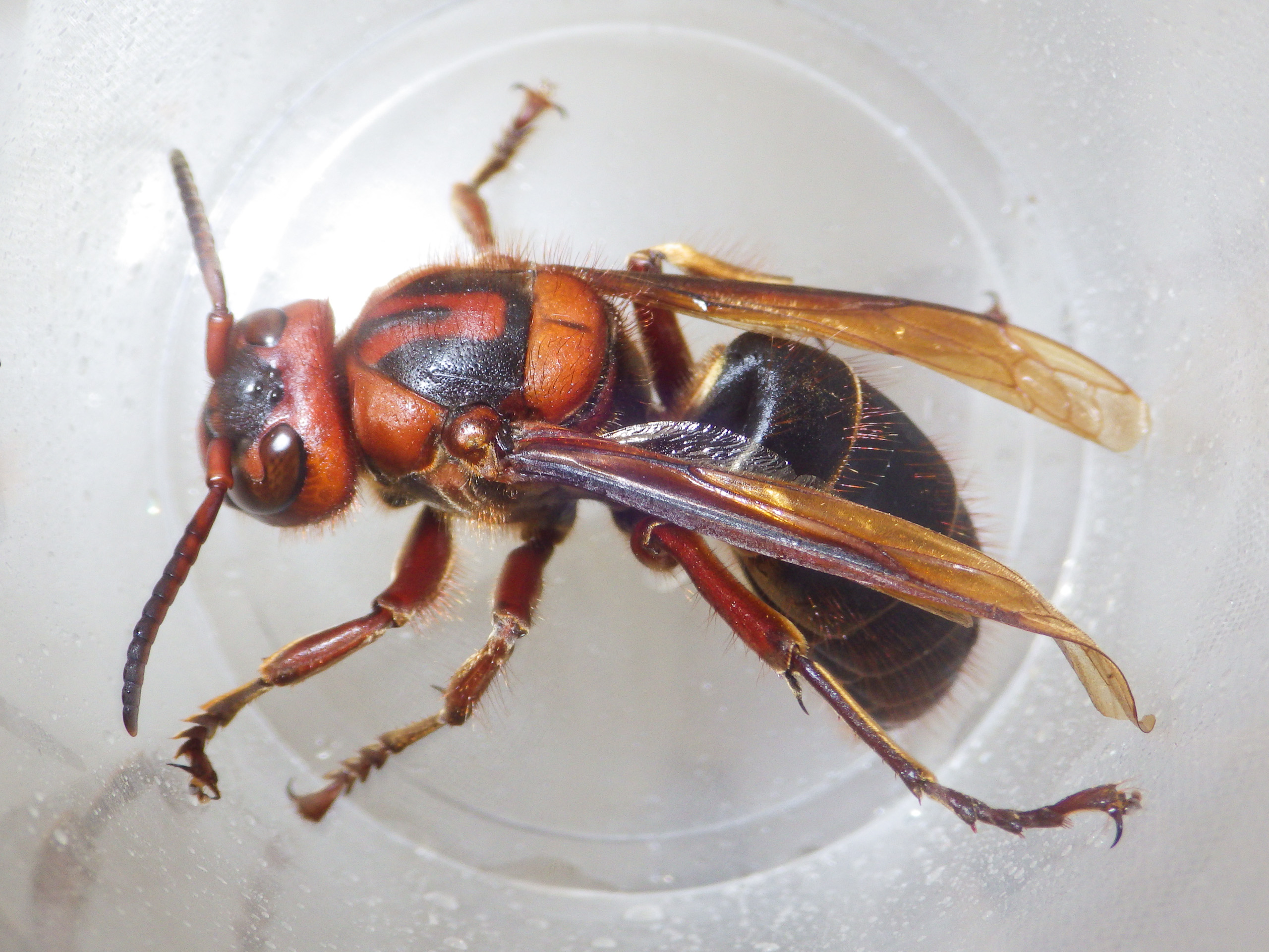 A queen of Vespa dybowskii